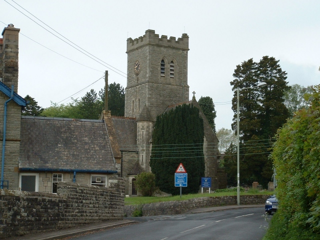 All Saints Pen-y-fai. Looking West towards the church.